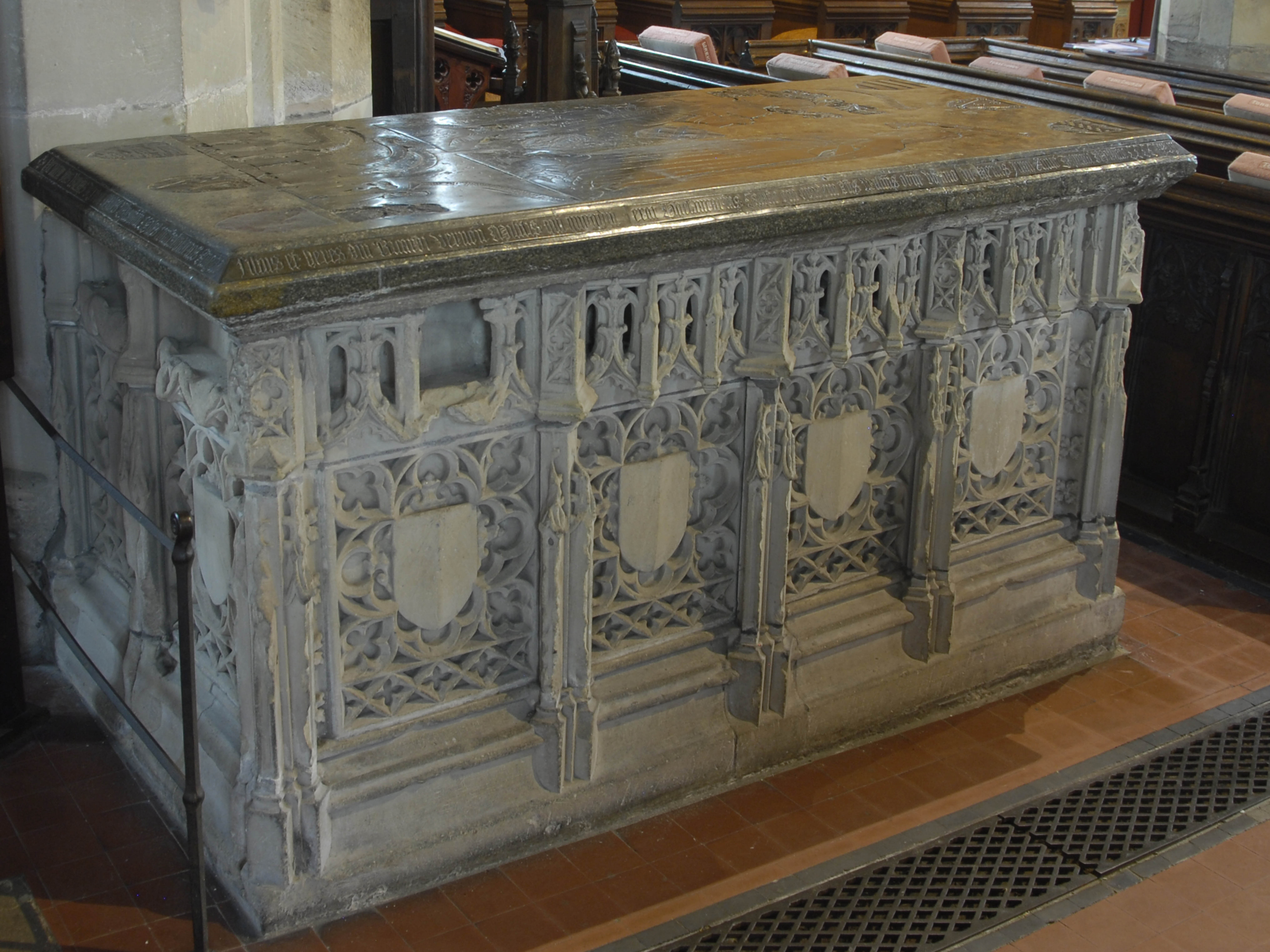 tomb of Sir William Vernon and his wife, Margaret Swynfen, in St Bartholomew's parish church, Tong, Shropshire